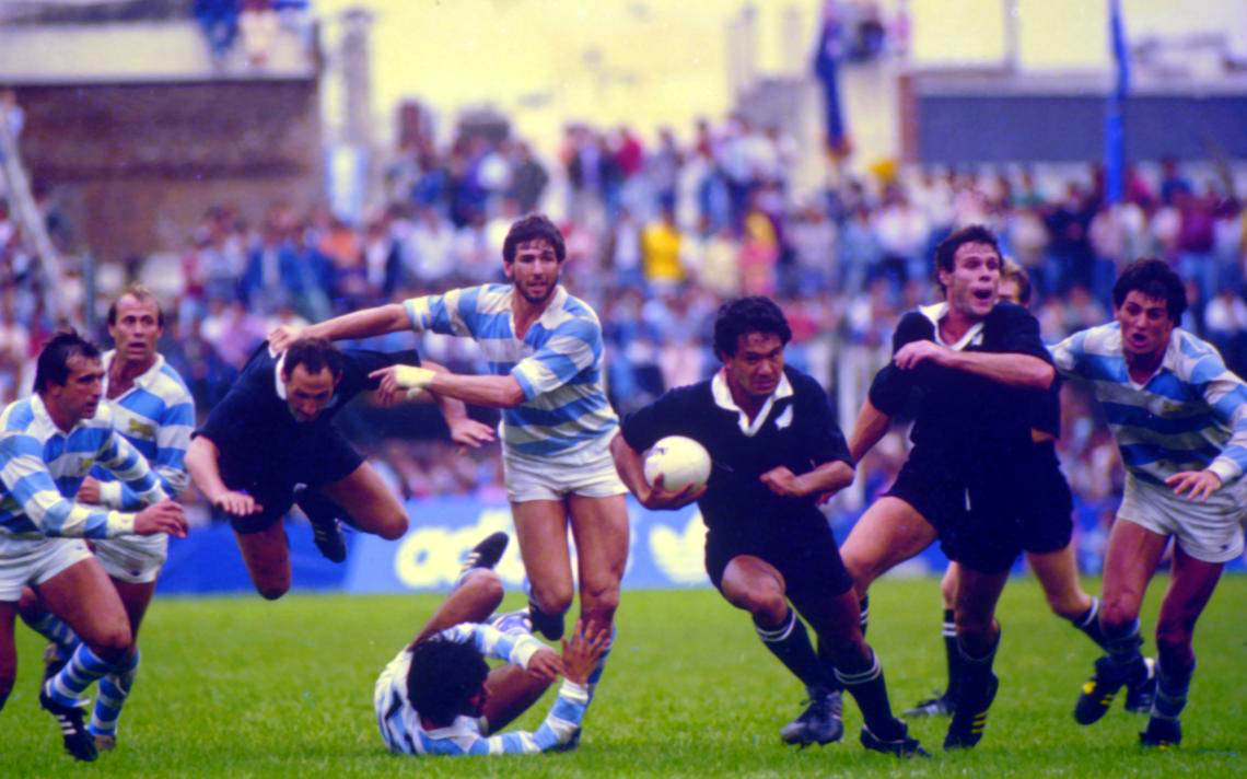 Hooker Hika Reid (NZ) running with the ball while Argentine Ernesto Ure seems to "throw" Jock Hobbs.